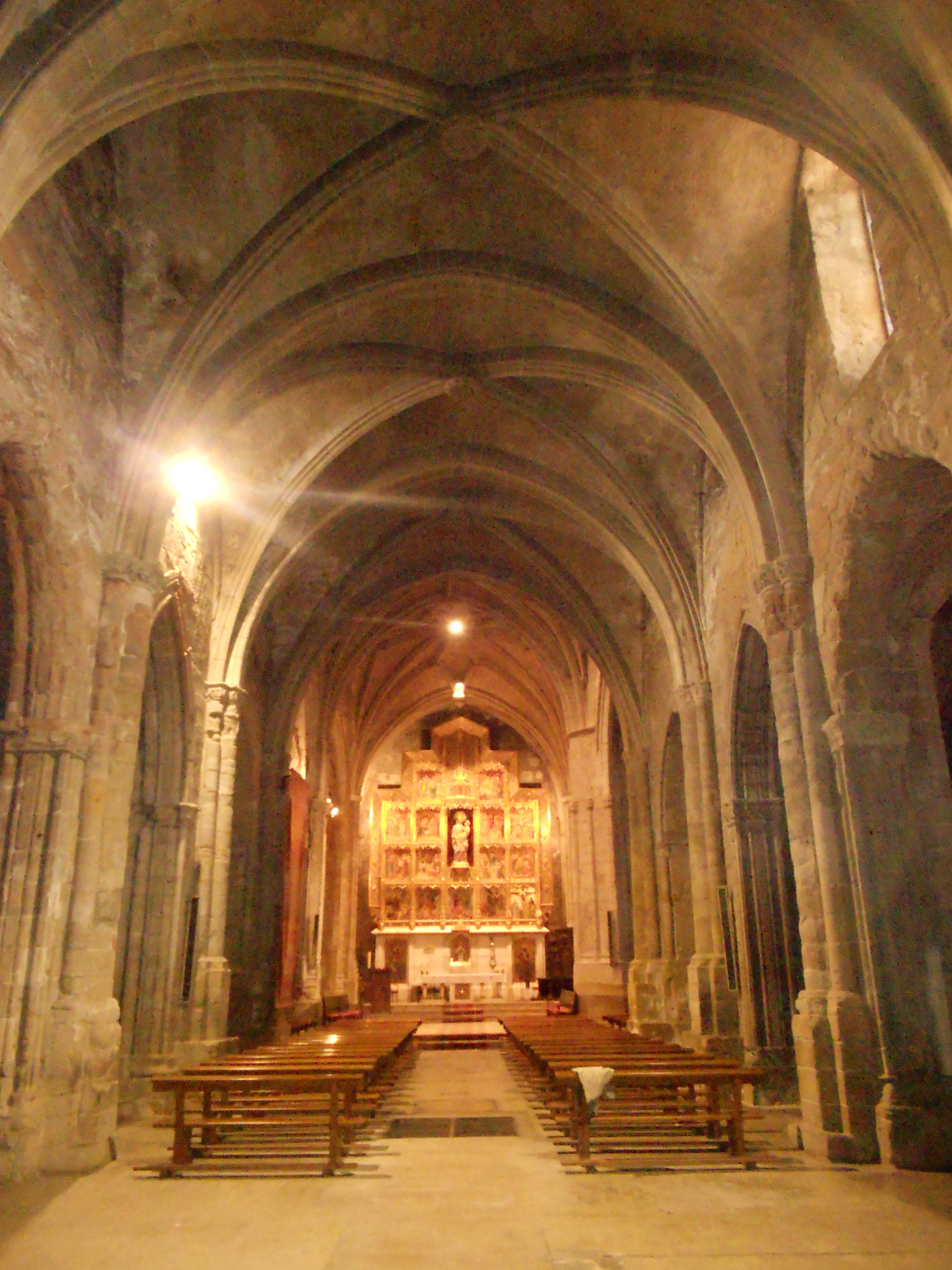 Inside of Santa María la Mayor Church (Caspe, Spain).